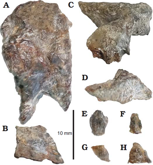 Thyreophoran dinosaur Bienosaurus lufengensis Dong, 2001 (IVPPV15311, holotype), from the Hettangian–Sinemurian (Lower Jurassic),Lower Lufeng Formation of Yunnan, China. A. Possible frontal in dorsalview. B. Possible maxilla or nasal. C. Possible osteoderm, prezygapophysisor ectopterygoid. D. Possible pterygoid. E. Tooth, broken off since previousdescription of specimen. F. Poorly preserved tooth. G, H. Possible teeth.